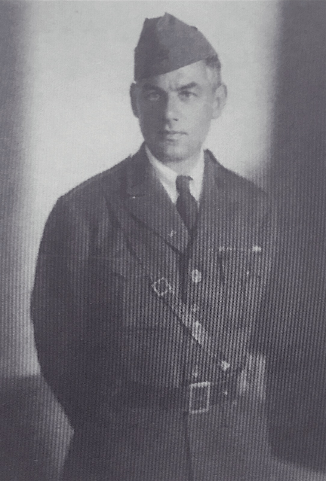 Spiro Moisiu as Army Chief of Staff